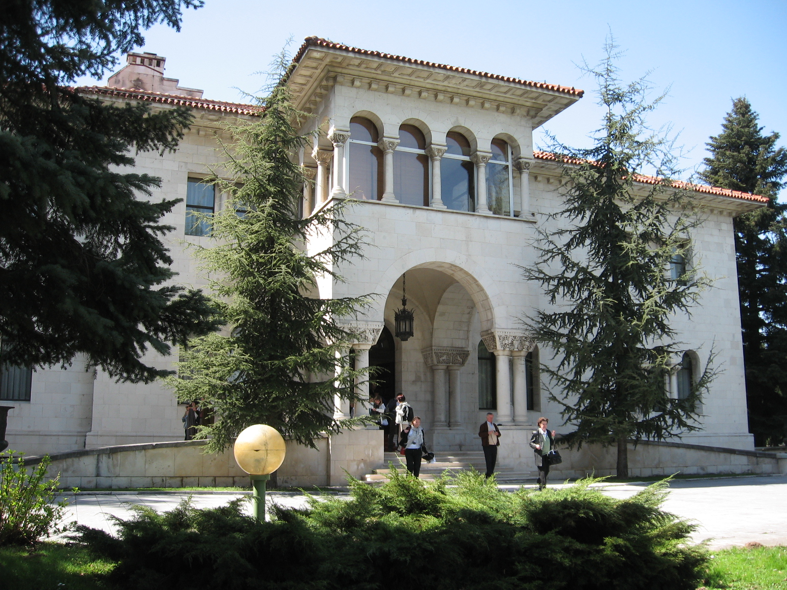 Royal Palace in Royal Compound, Belgrade